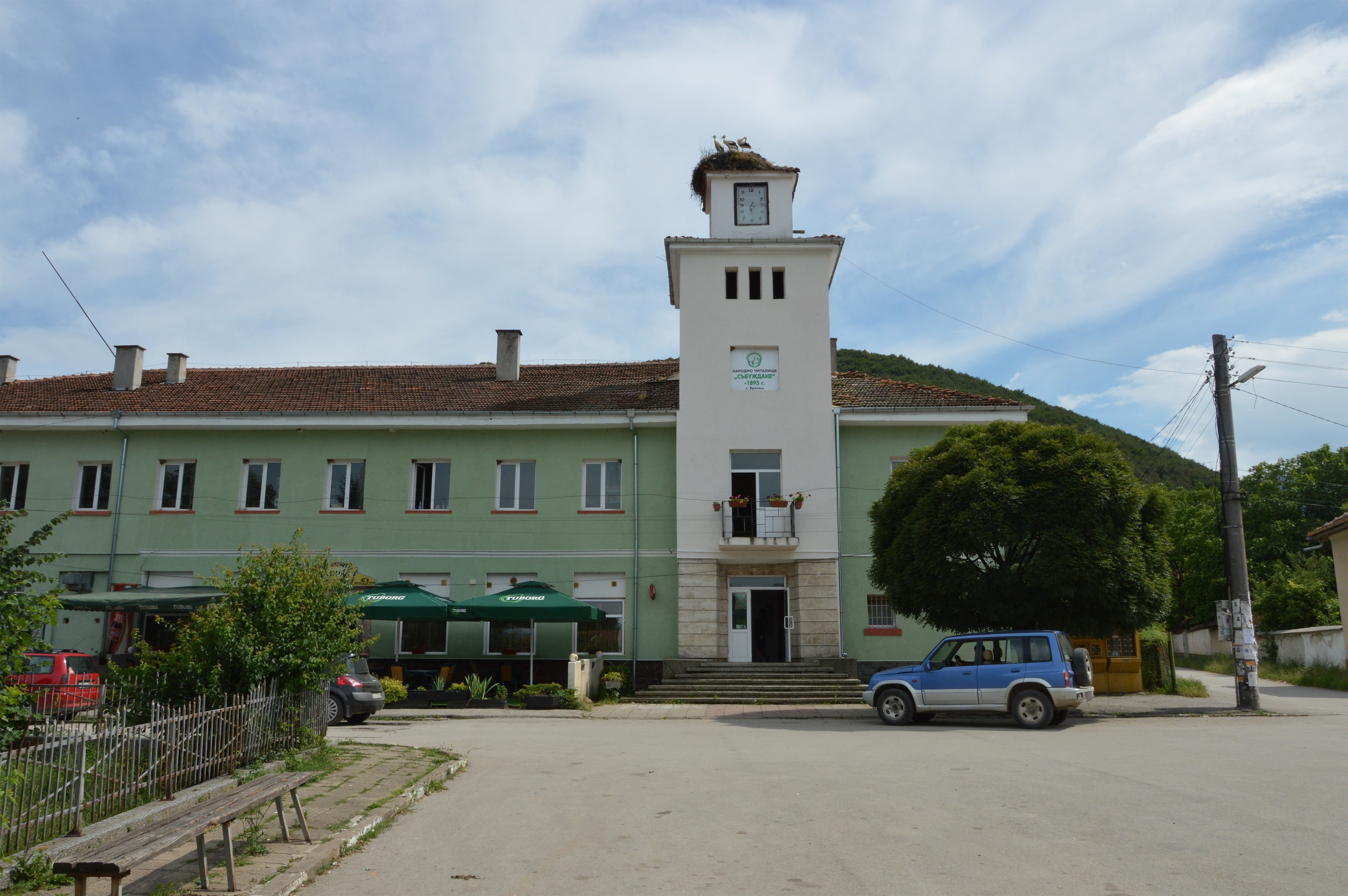 Stork nest on the clock tower of chitalishte Sabuzhdane in Vrachesh, Bulgaria.